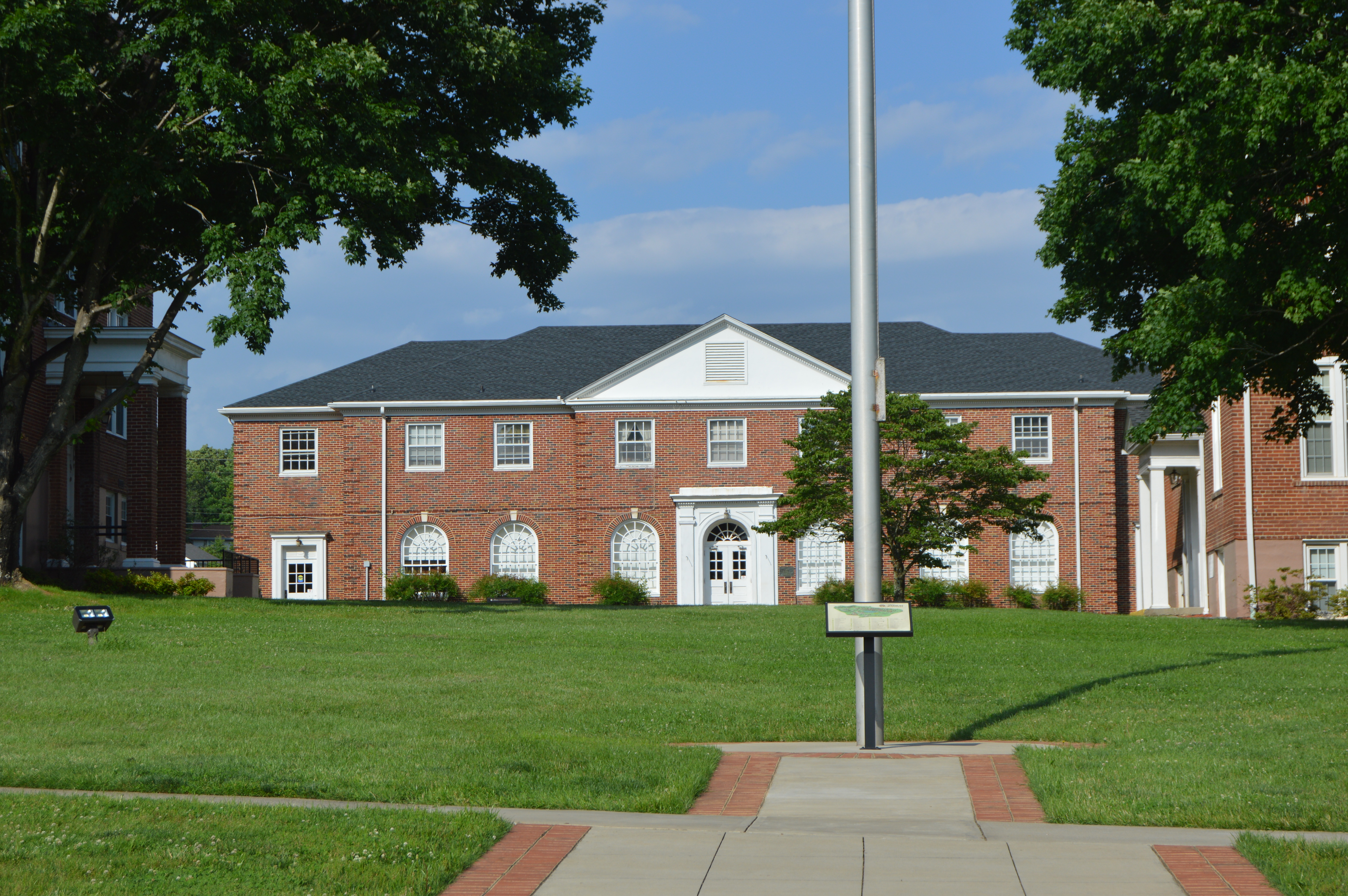 Front of Britt Hall on the campus of Ferrum College in Ferrum, Virginia, United States. Built in 1942, Britt is part of the college campus historic district, which is listed on the National Register of Historic Places.